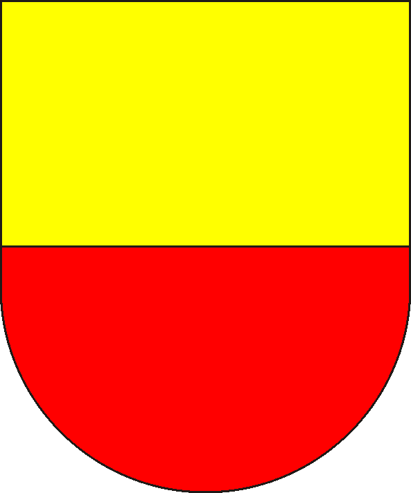 coat of arms